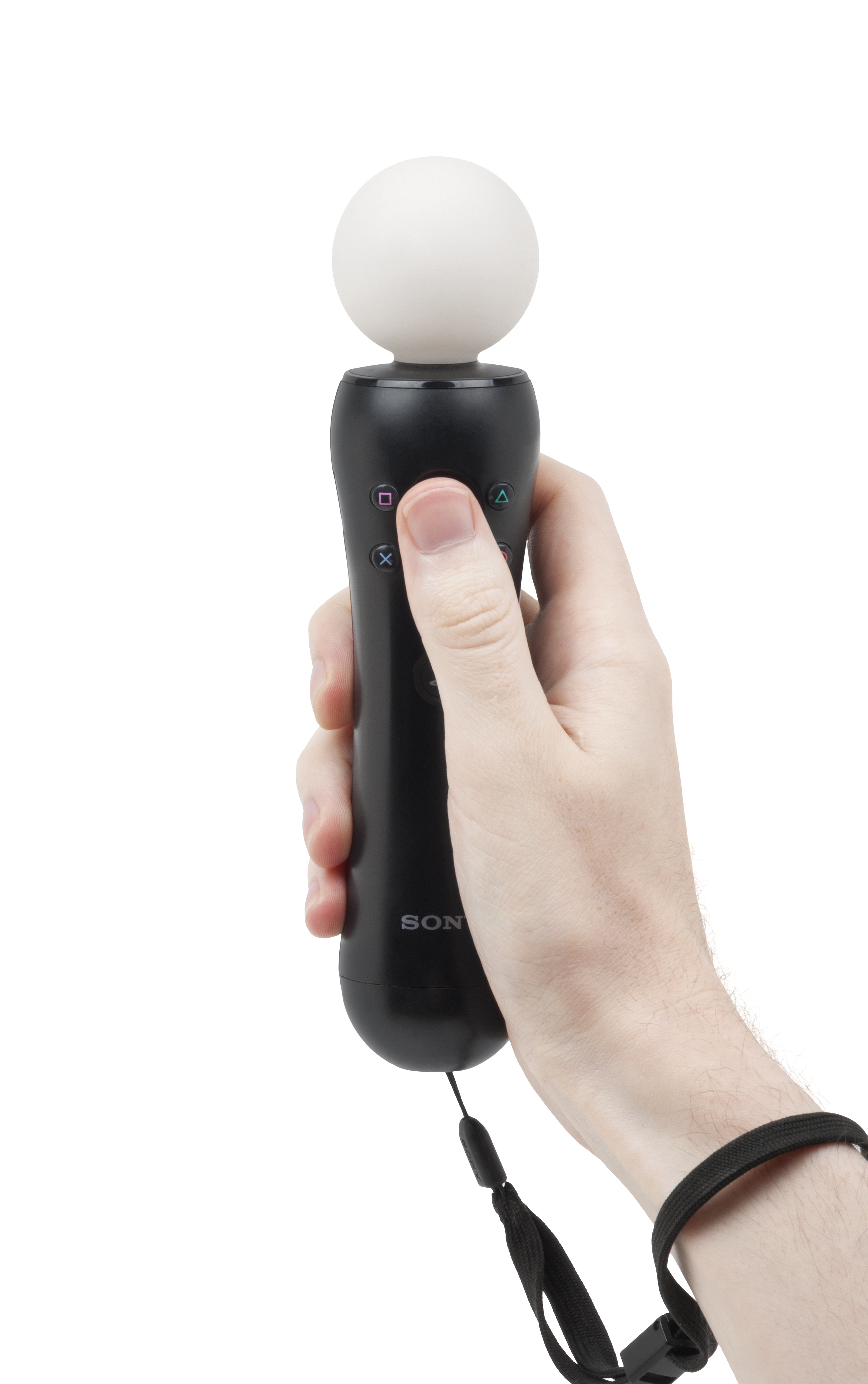 The PlayStation Move controller, shown in hand.